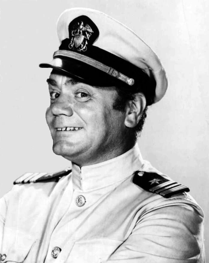 Photo of Ernest Borgnine as Commander McHale from the television program McHale's Navy.